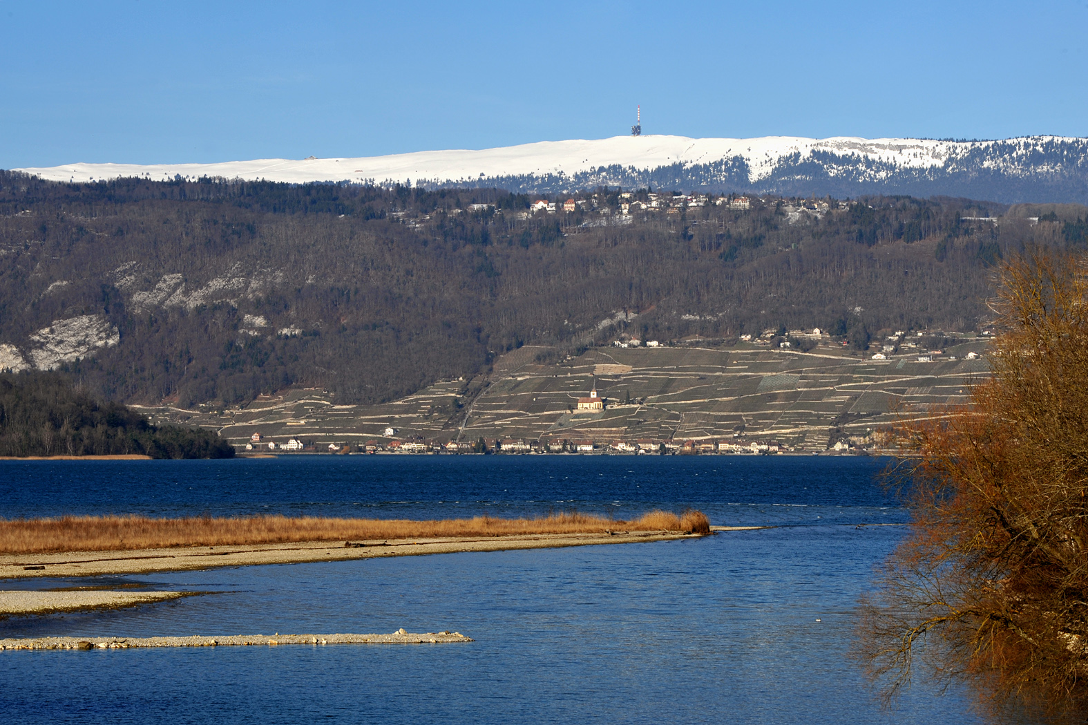 Estuary of the Aar into Lake Biel; Berne, Switzerland. In the foreground the dam poured for the construction of the temporary pedestrian bridge. In the background Lake Biel the church of Ligerz and the Chasseral.